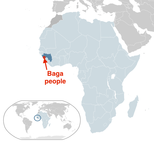 The geographical distribution of the Baga people (approx). This is a derivative work on the following image available under creative commons license in wikimedia: File:Location Guinea AU Africa.svg